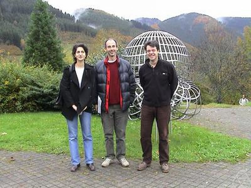 From left: Sylvia Servaty, Etienne Sandier, Tristan Rivière, Oberwolfach 2002